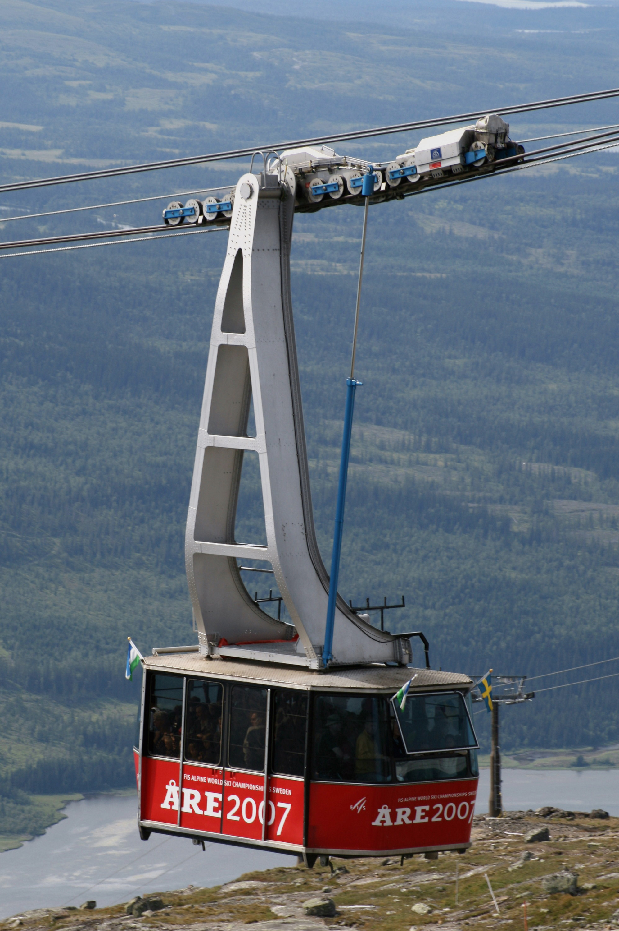 The Cabel car in Åre.